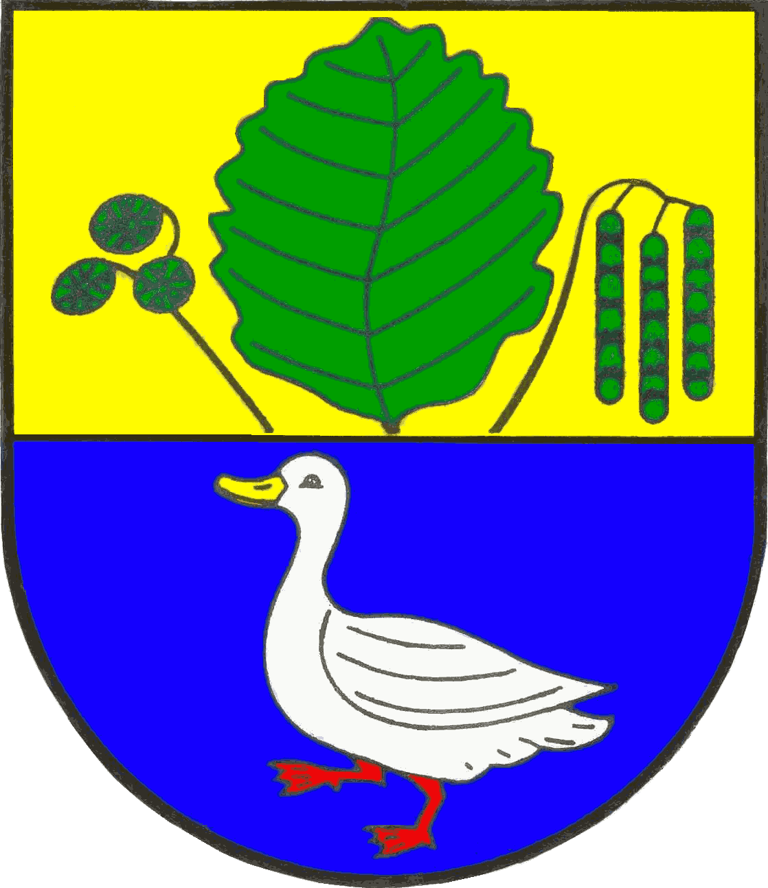 Coat of arms of the municipality Ellingstedt in Schleswig-Holstein, Germany.